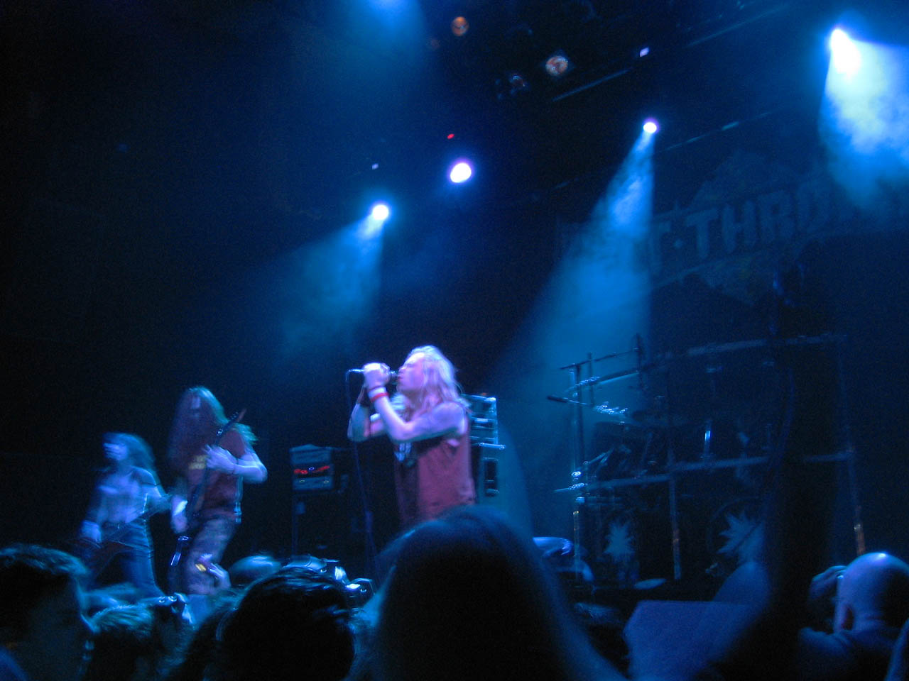 Bolt Thrower live at the Inferno festival 2006